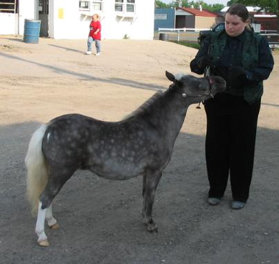 'Trinket', a Silver Dapple Minimal express tobiano American Miniature Horse. Picture taken by Elizabeth M.E. Hall, Fire Song Ponies, Iowa